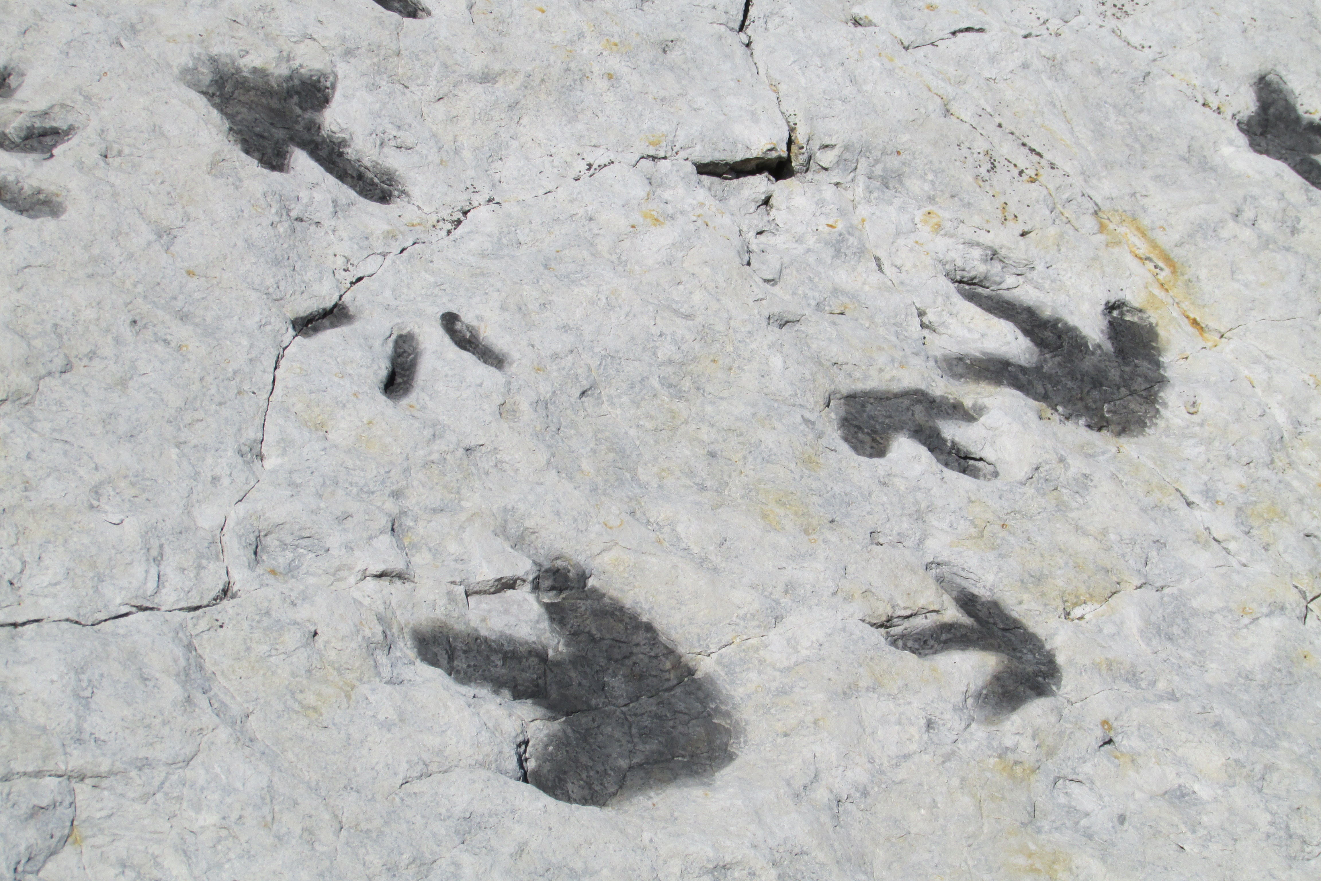 Dinosaur Tracks at Dinosaur Ridge, Morrison Fossil Area National Natural Landmark, Colorado.